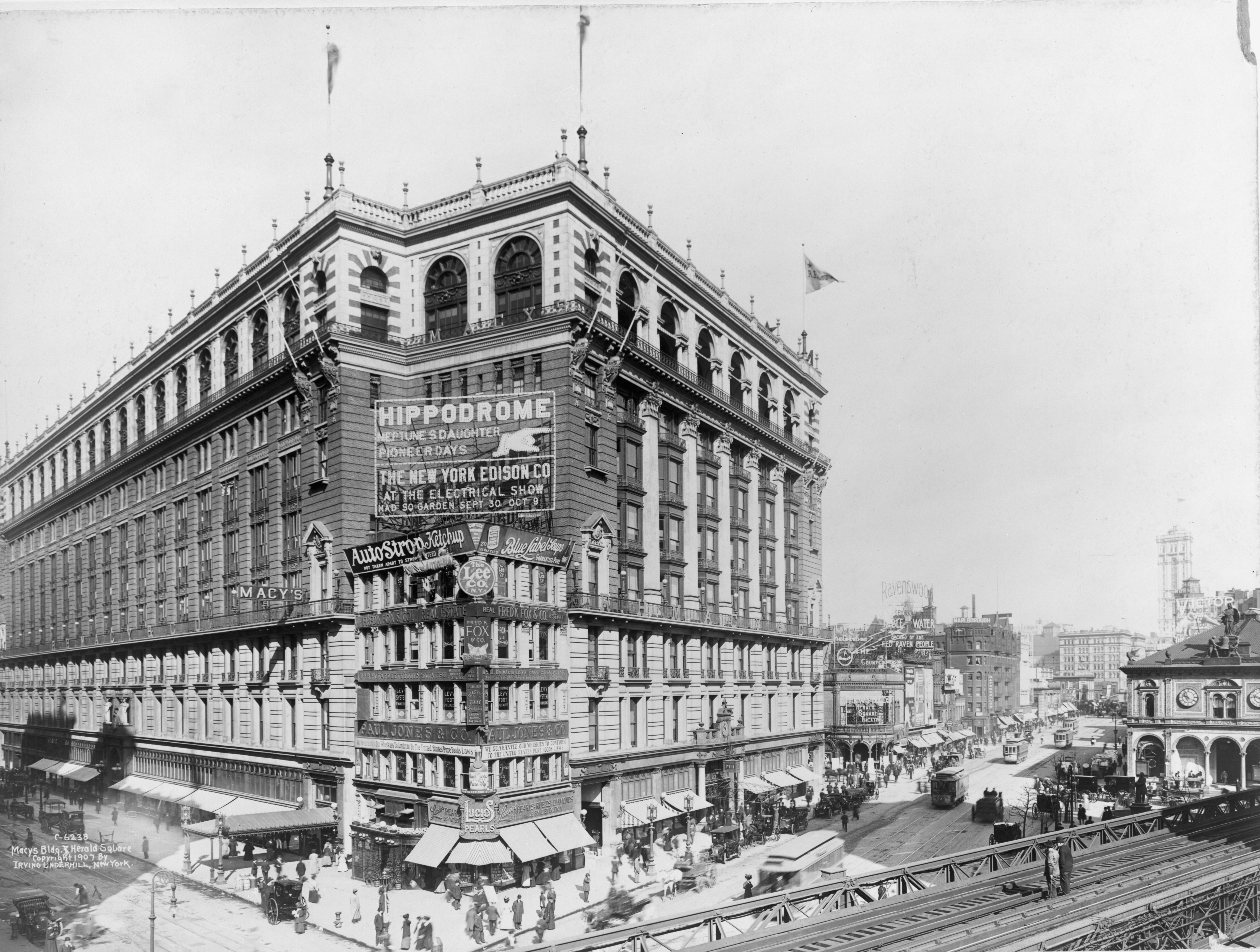 Macy's Bldg. & Herald Square, New York City, 1907.